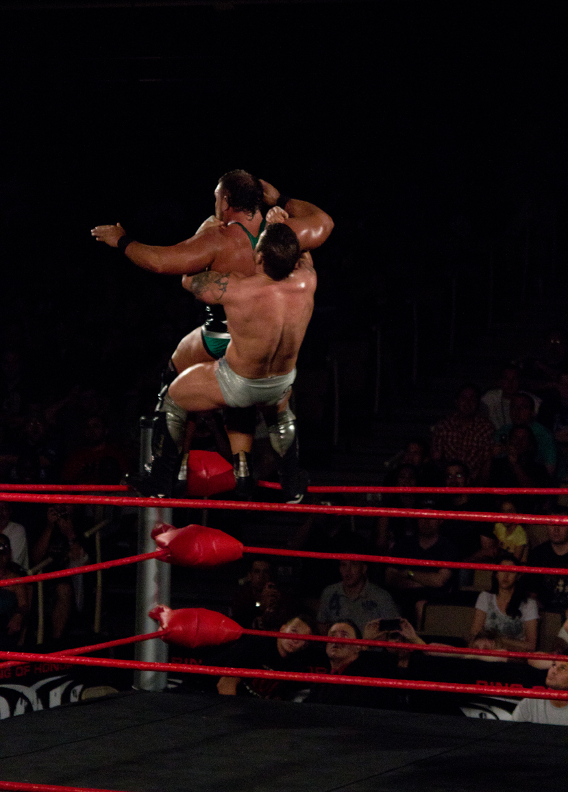 Davey Richards performing a German suplex (belly to back) from the top rope to Michael Elgin at Showdown in the Sun